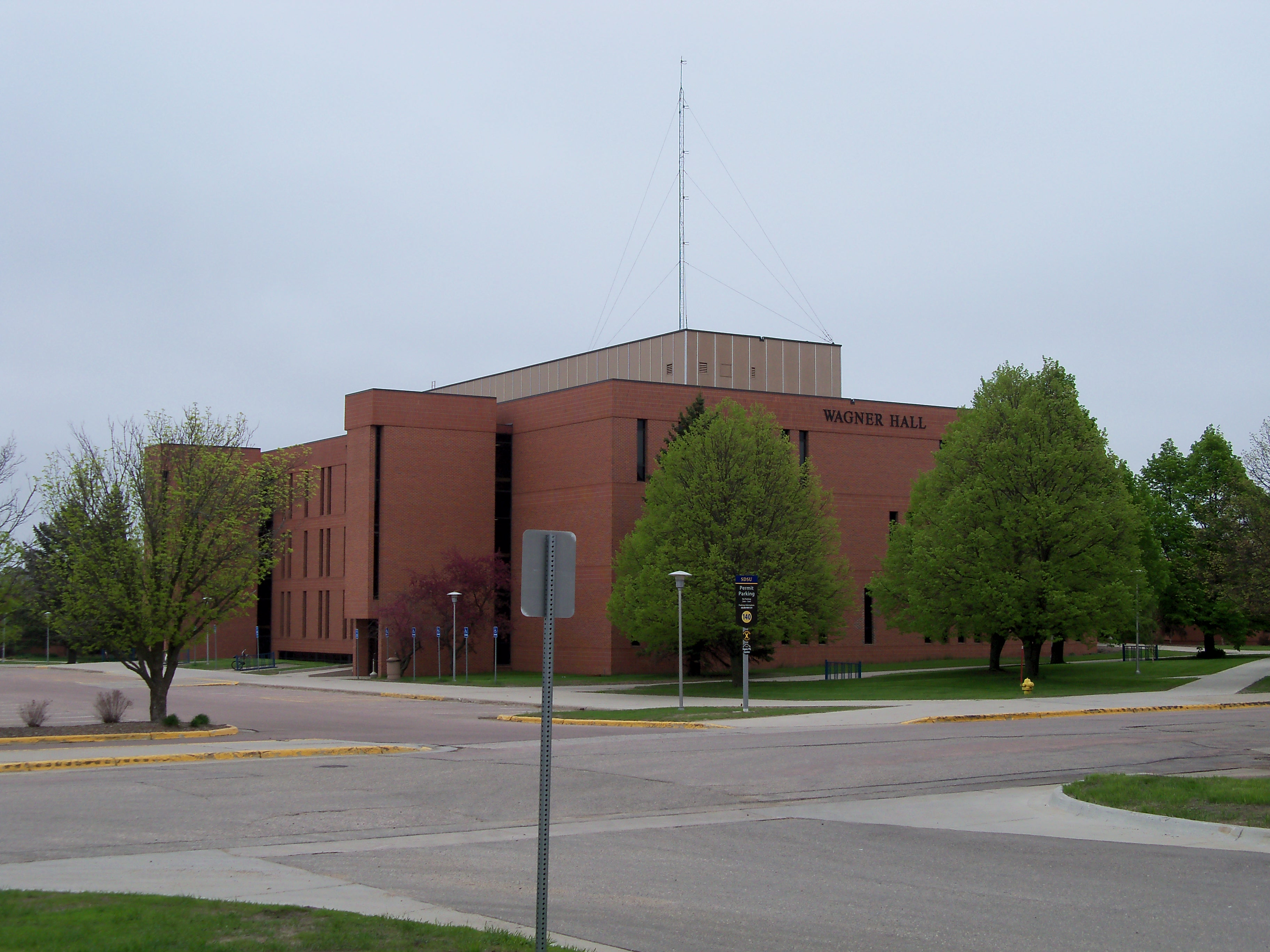 Wagner Hall on the campus of South Dakota State University in Brookings, South Dakota, USA.